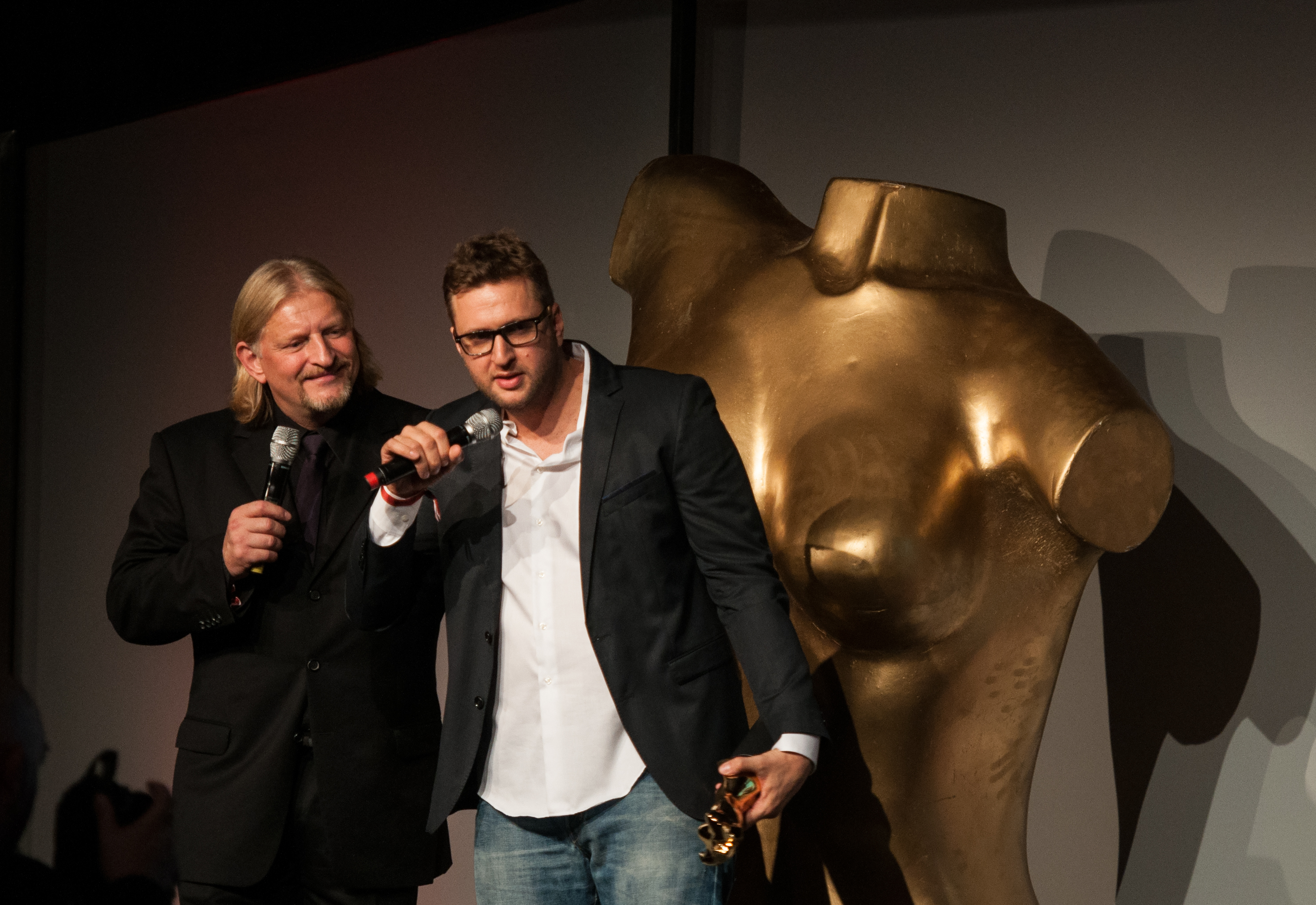 René Schwuchow at the ceremony of the Venus Awards 2014, Berlin